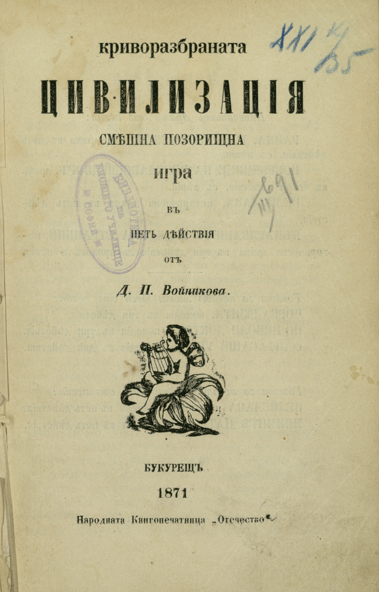 Cover page of the book "The Shrewd Civilization" - a play by Dobri Voynikov